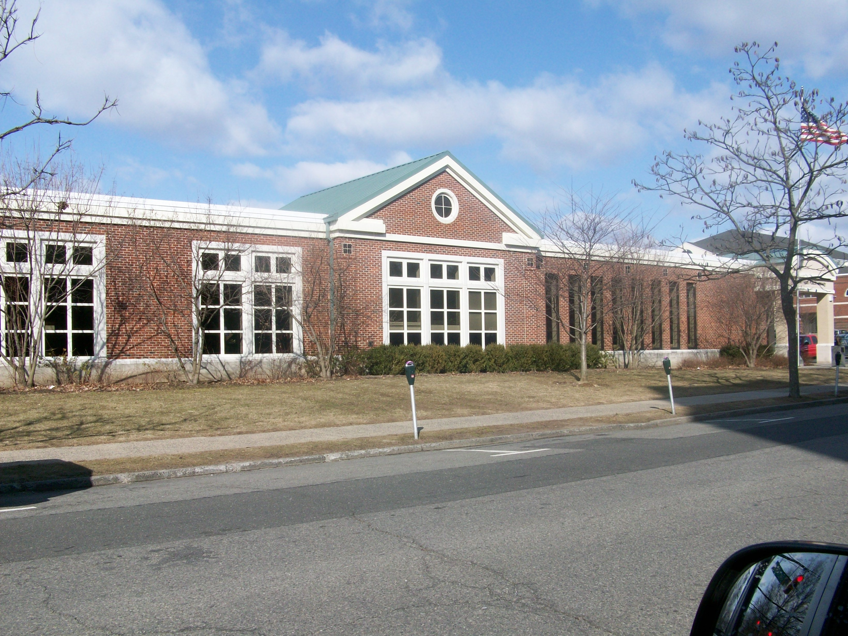 Exterior view of Summit Public Library, from Maple Street, in Summit, New Jersey.